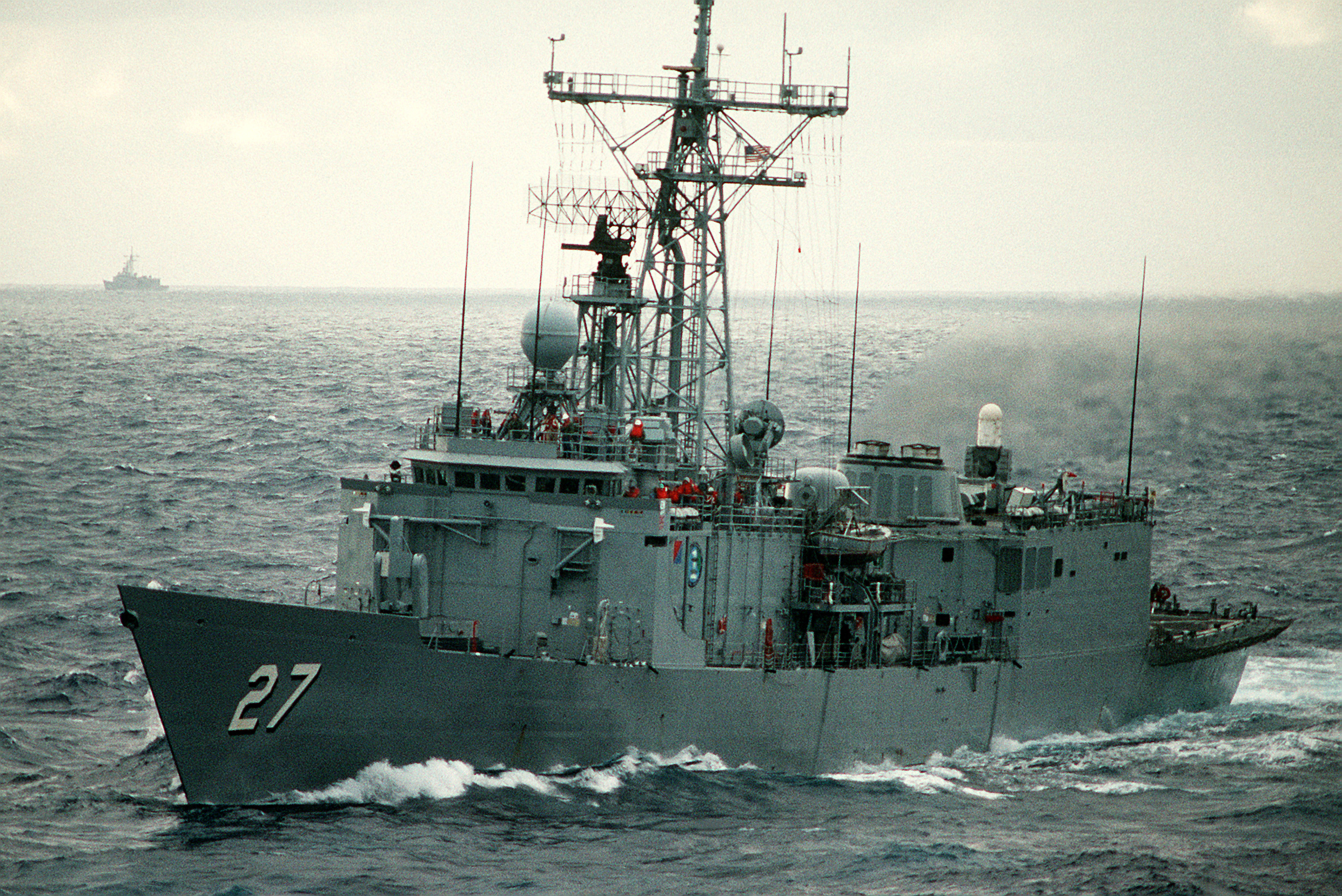 A port bow view of the guided missile frigate USS MAHLON S. TISDALE (FFG-27) underway during PACEX '89.